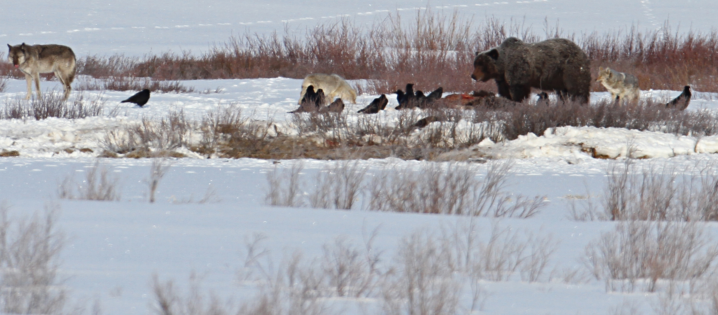 Wolves, bear, and ravens competing over a kill in Yellowstone National Park.